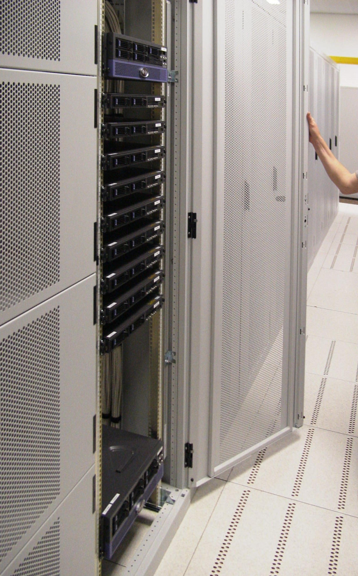 Amsterdam servercluster in its own rack